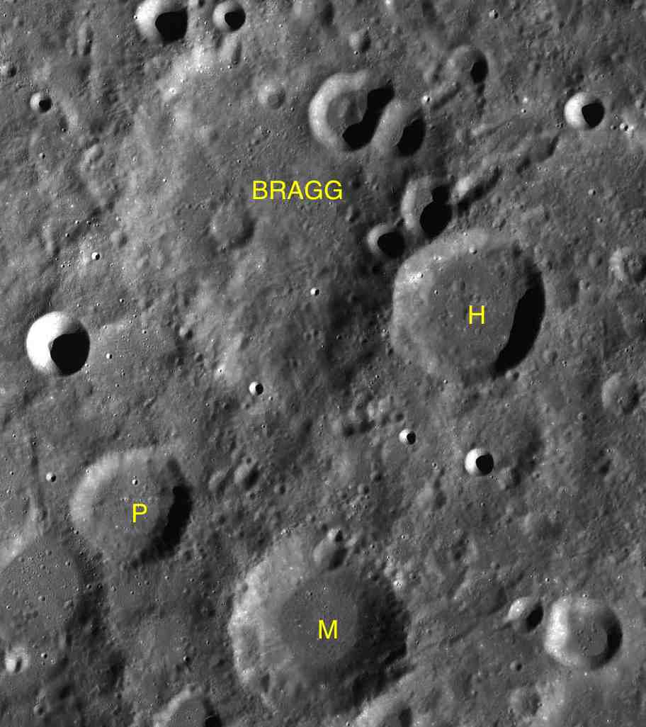 Part of the chart LAC-36 used for the presentation